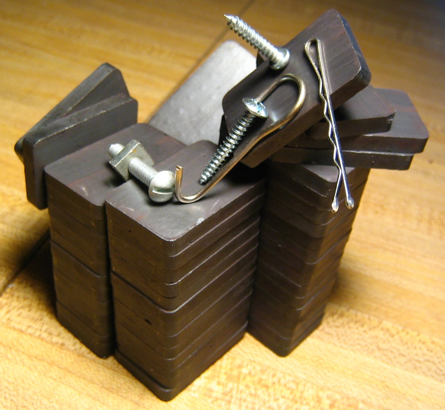 A stack of ceramic/ferrite magnets with some various metal objects.